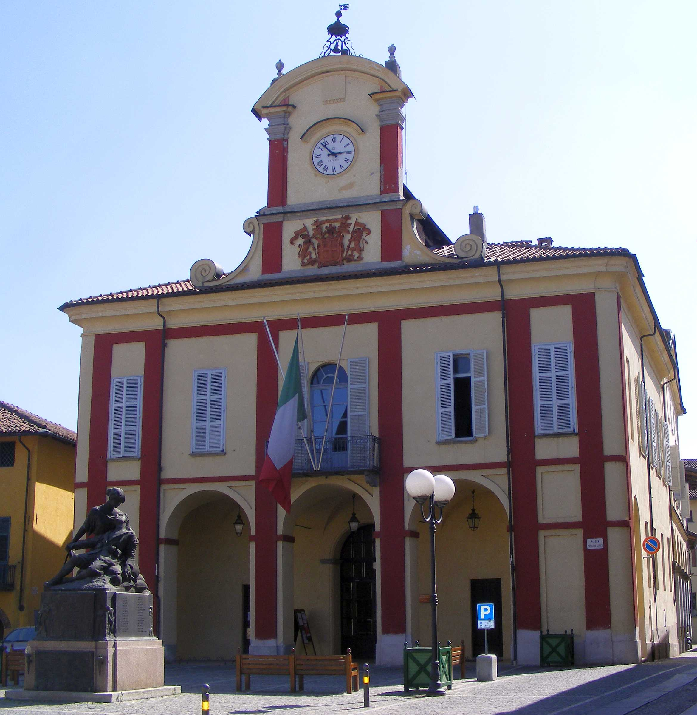 Vigone (TO, Italy): town hall